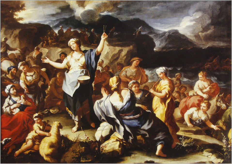 Reproduction of oil painting, "The Song of Miriam"